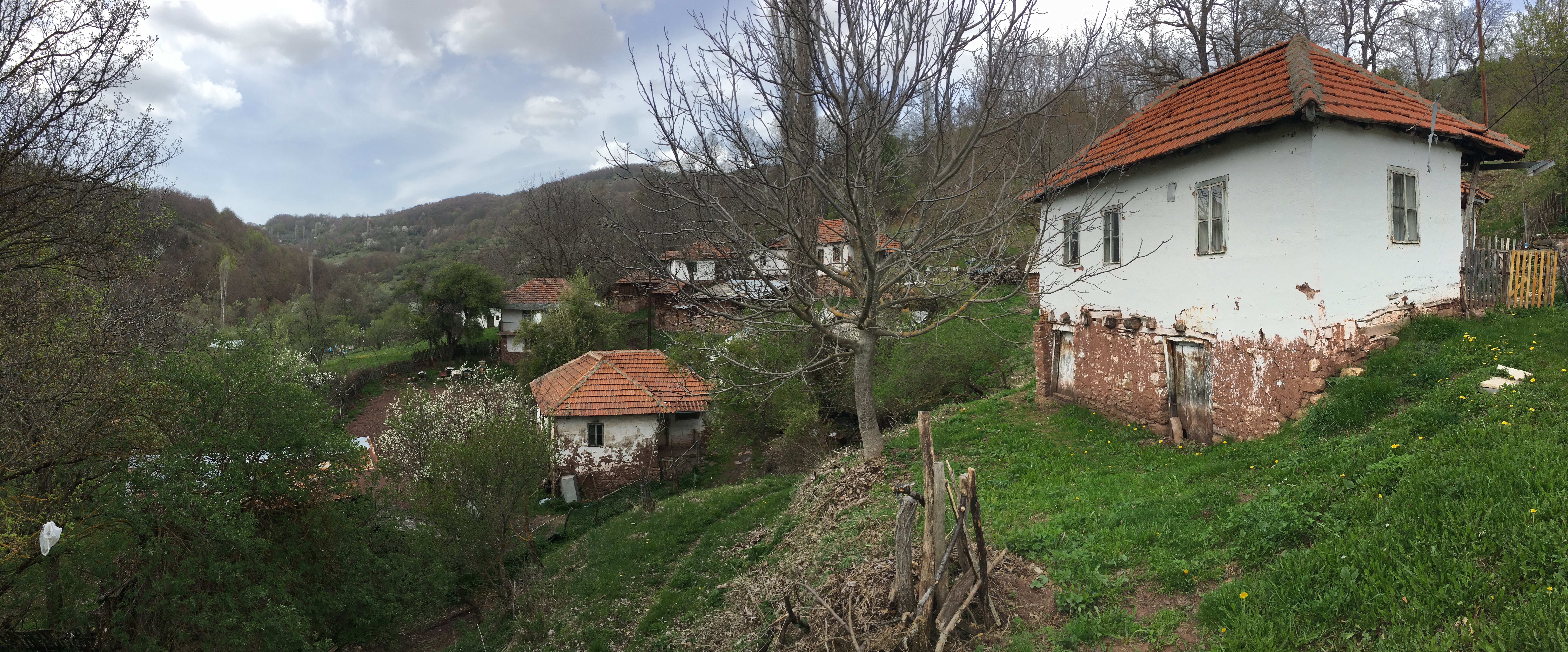 Reka mahala of the village of Golema Crcorija